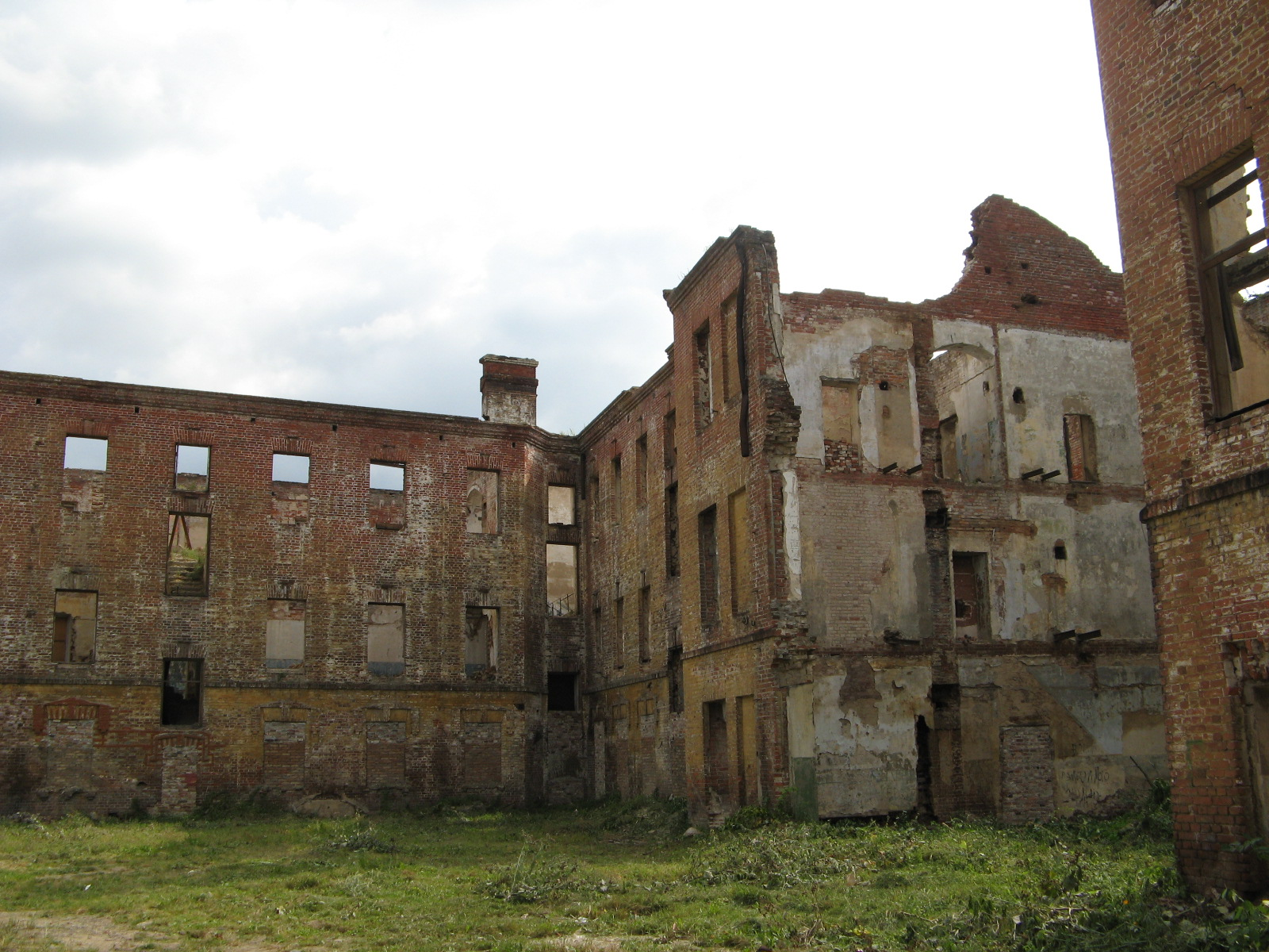 Hotel Europe (Babrujsk) was destroyed during the World War II